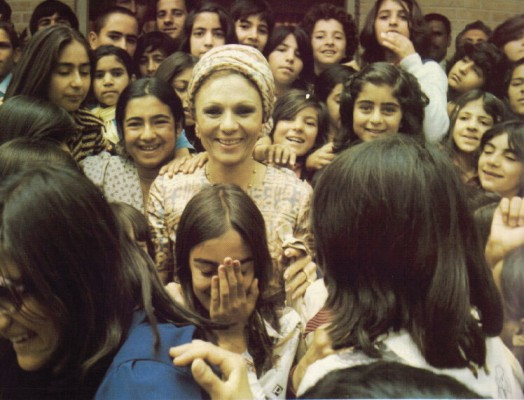 Farah Diba visiting a center of youth organisation